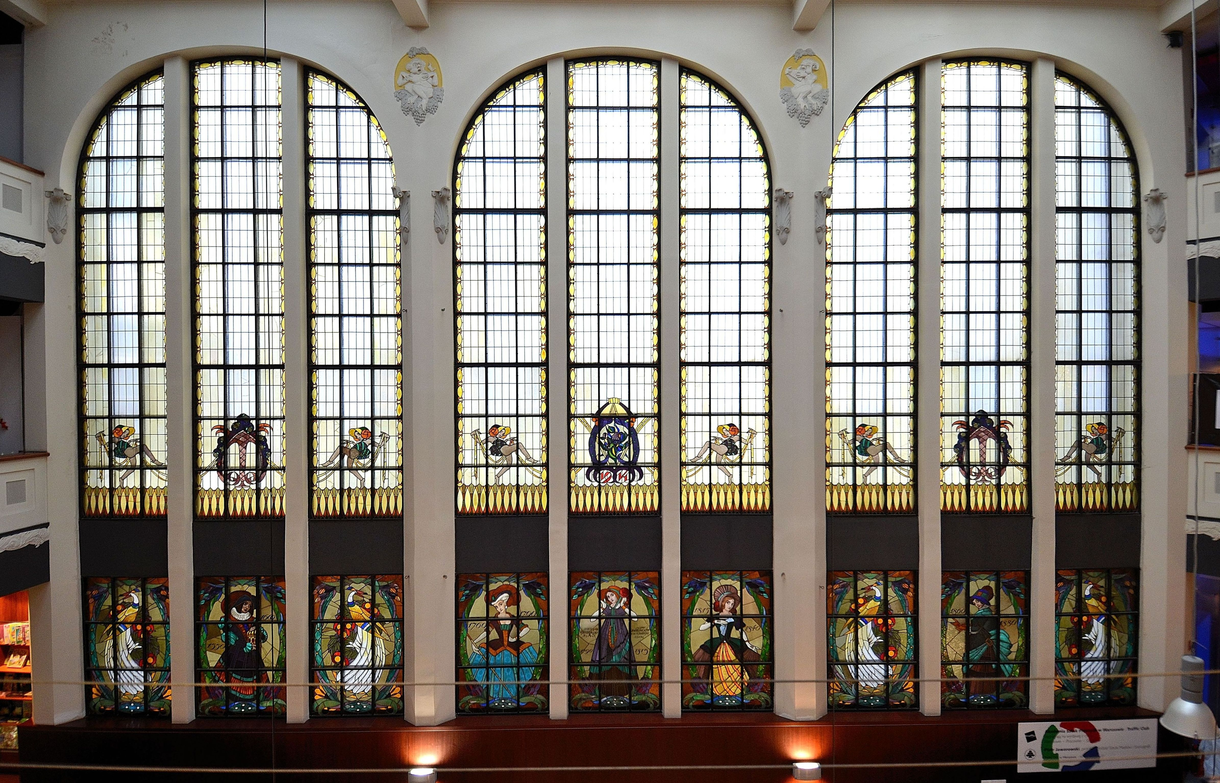 The stained glass window in the Jabłkowski Brothers department store at 25 Bracka Street in Warsaw